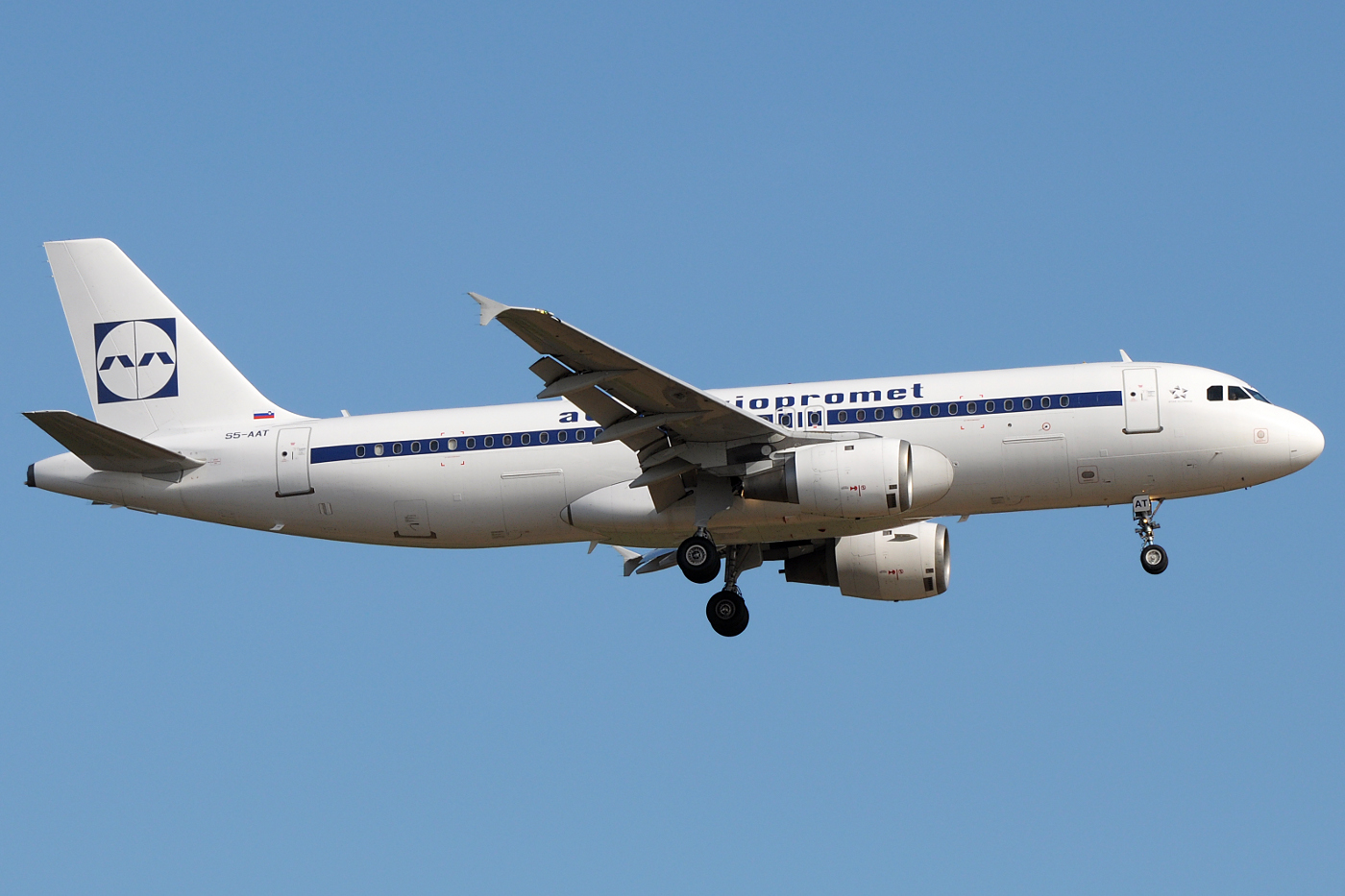 The Adria Airways Retrojet